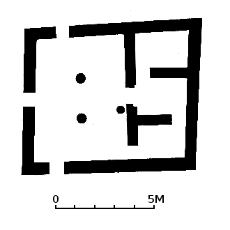 Temple 3 A of Musawwarat es-Sufra, Sudan. Originally a pagan temple, it was converted into a Christian church soon after the conversion of the Alodian monarchy in 580. Based on Töröks' "Ein christianisiertes Tempelgebäude in Musawwarat es Sufra (Sudan)" (1974), Abb. 2.